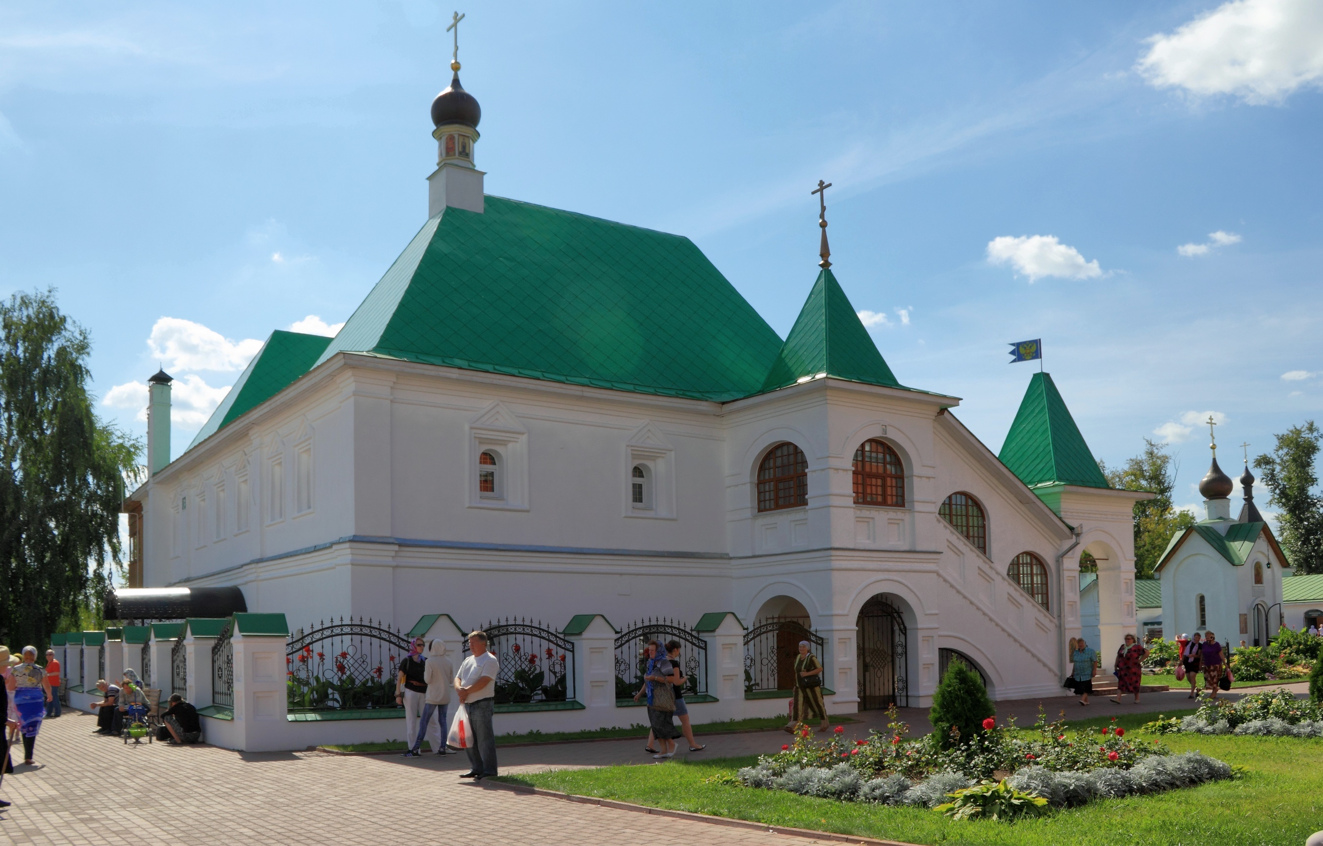 Murom. Transfiguration monastery. The abbot's house